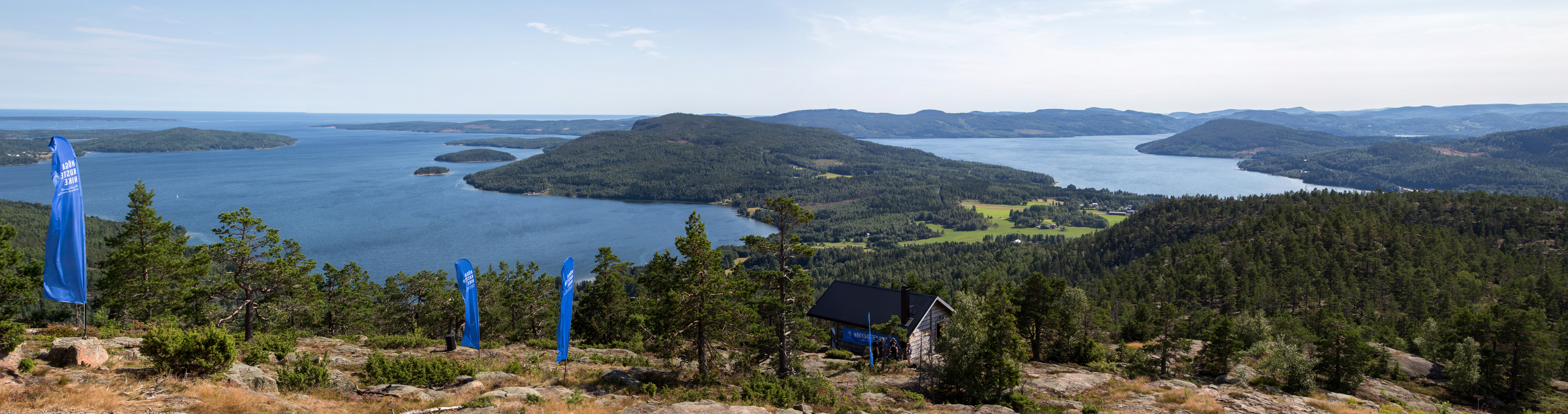 View over the High Coast from the top of Skuleberget